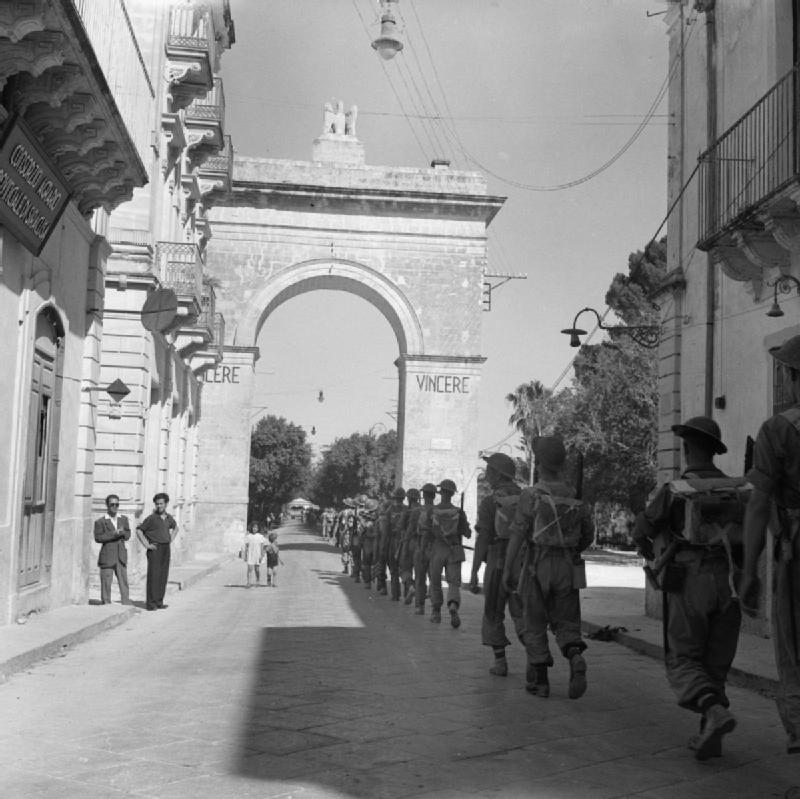 The British Army in Sicily 1943 Infantry marching through the town of Noto, 11 July 1943.